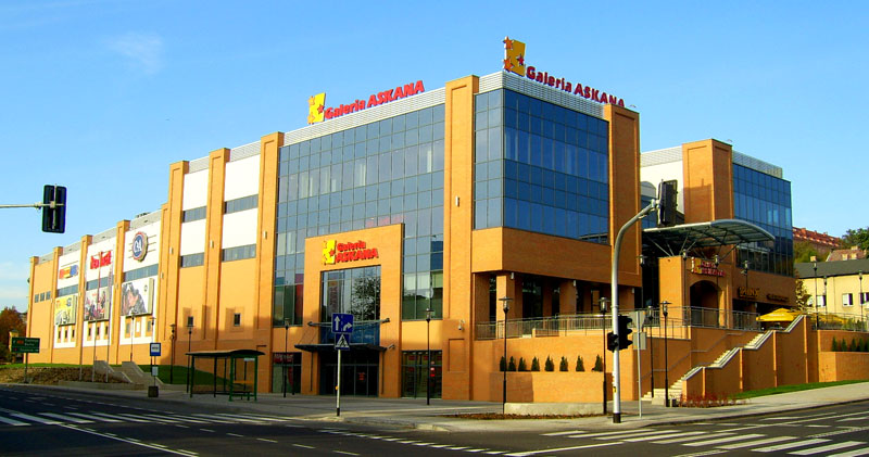 Galeria Askana Gorzów Wielkopolsko